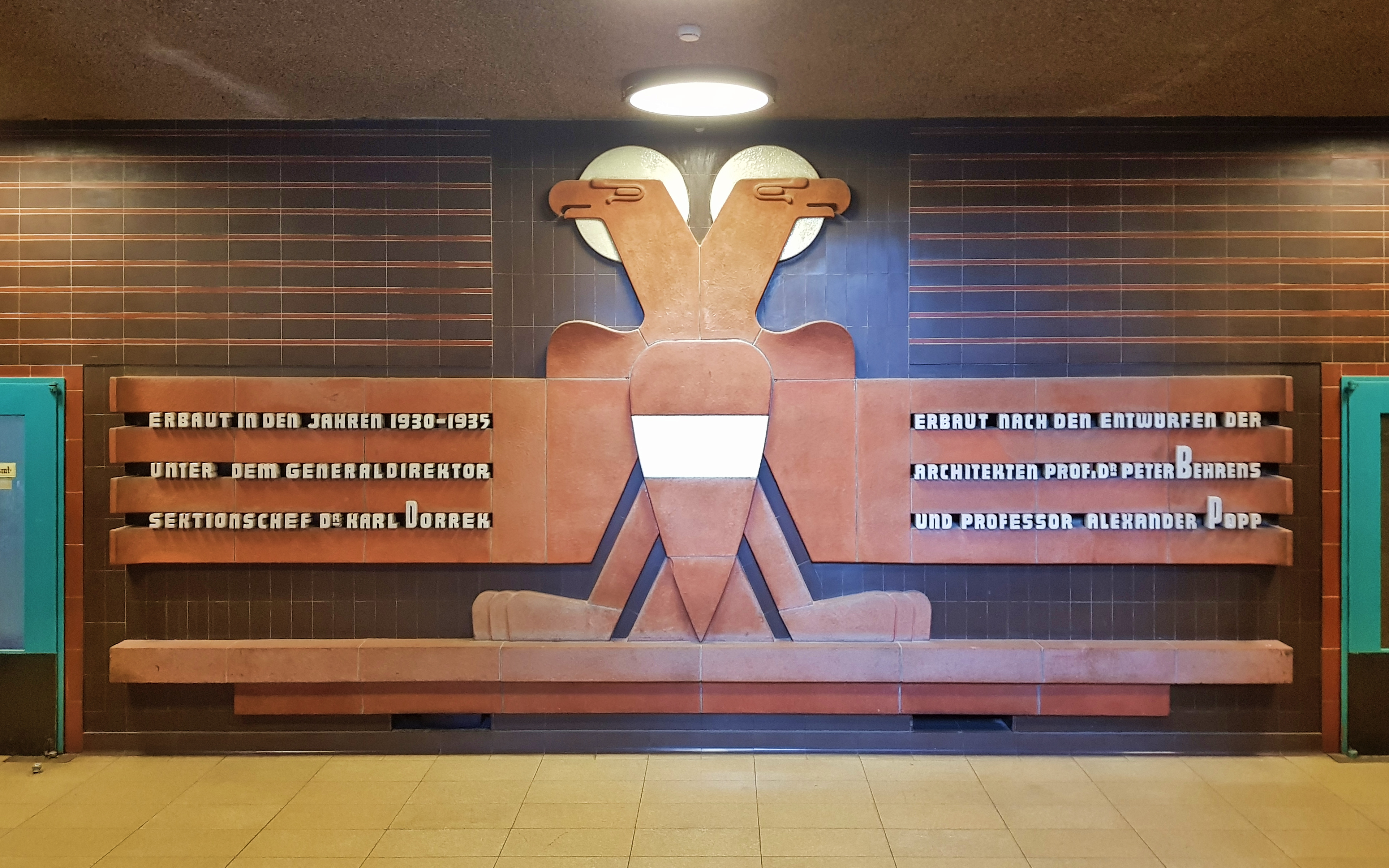 Linz Austria Tabakwerke